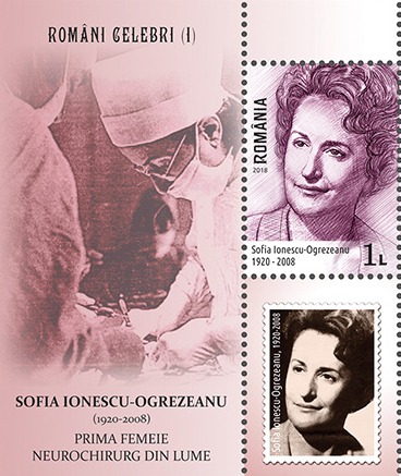 Famous Romanians, part I